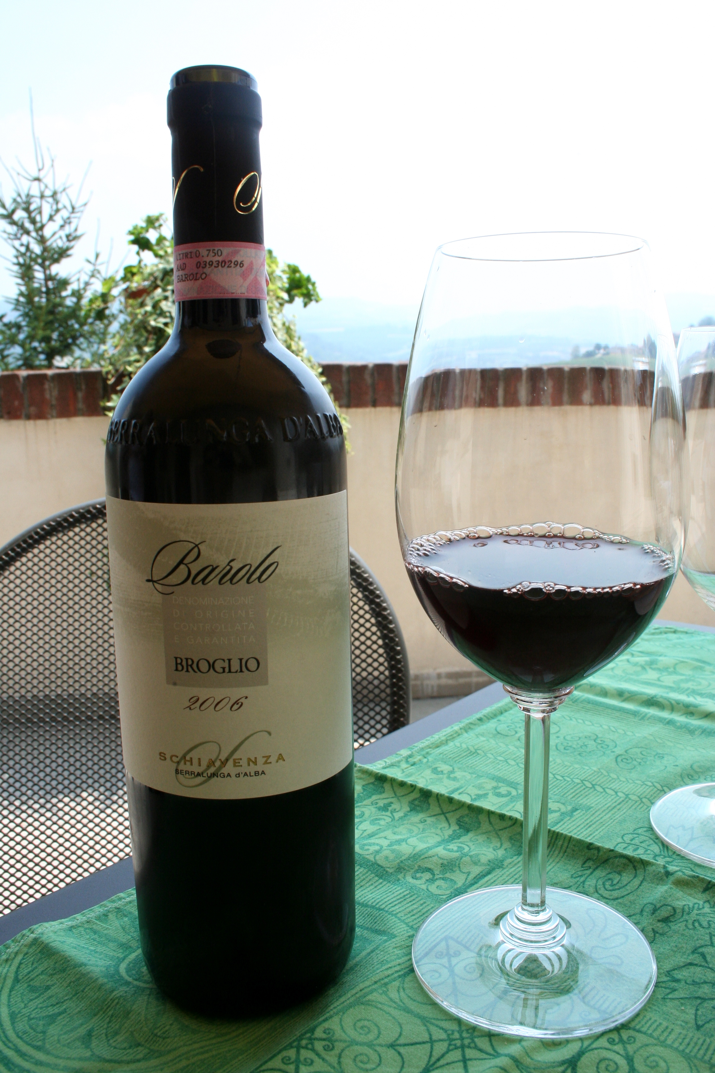 A class of the Italian red wine Barolo from Piedmont